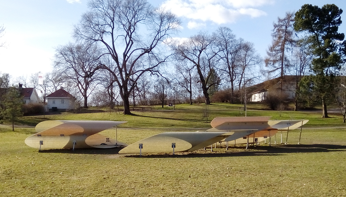 WAVELENGTHS RECOMPOSED 2016 Vigeland Park Photo: Marco Pannaggi